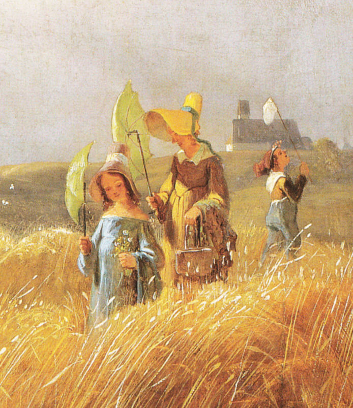 Detail of Carl Spitzweg: Der Sonntagsspaziergang. 53.2 × 41.3 cm. 1841. Oil on wood.